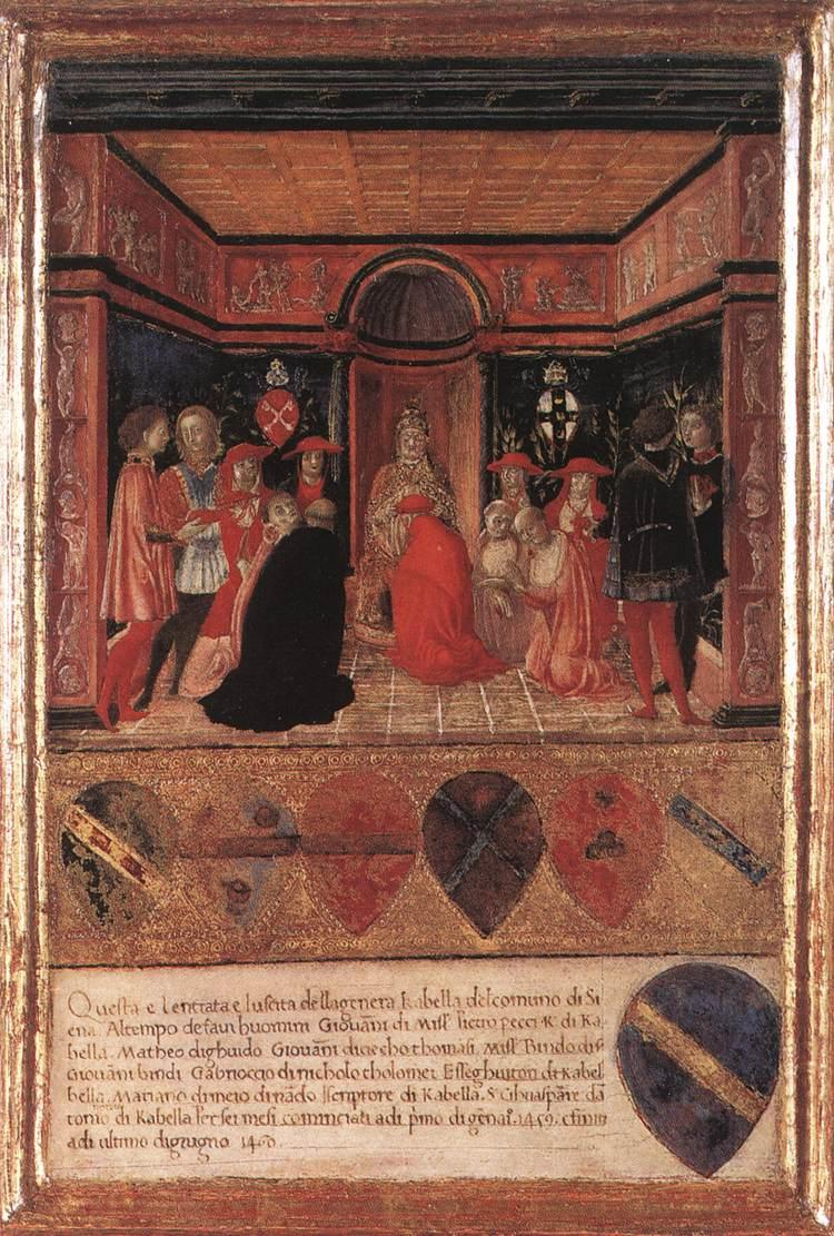 Pope Pius II Names Cardinal His Nephew. (Wood, 49 x 34 cm).